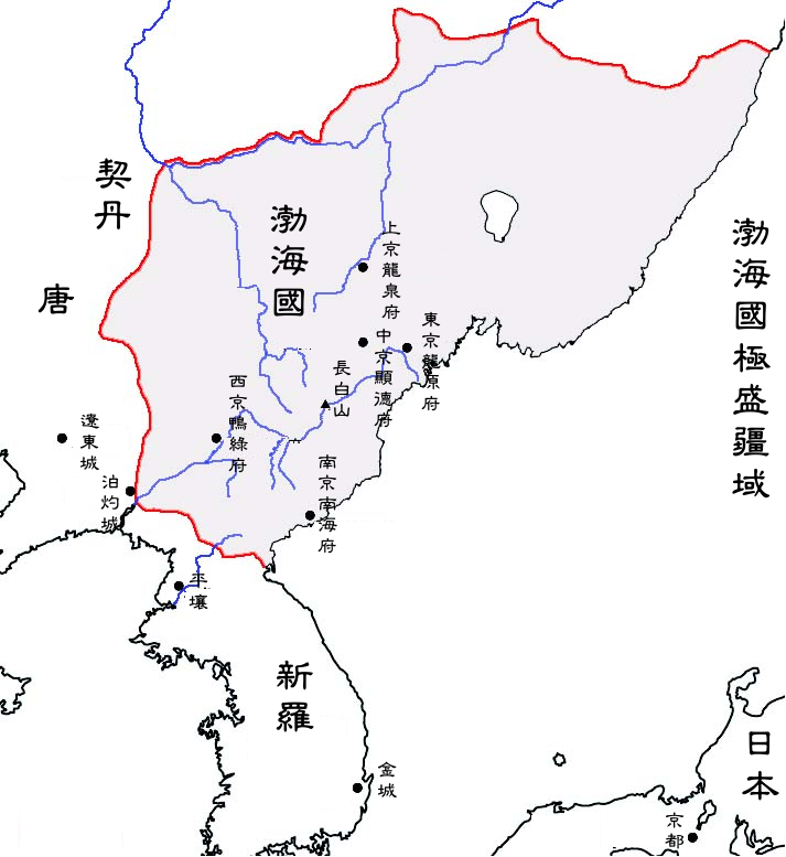 Largest Area of Balhe